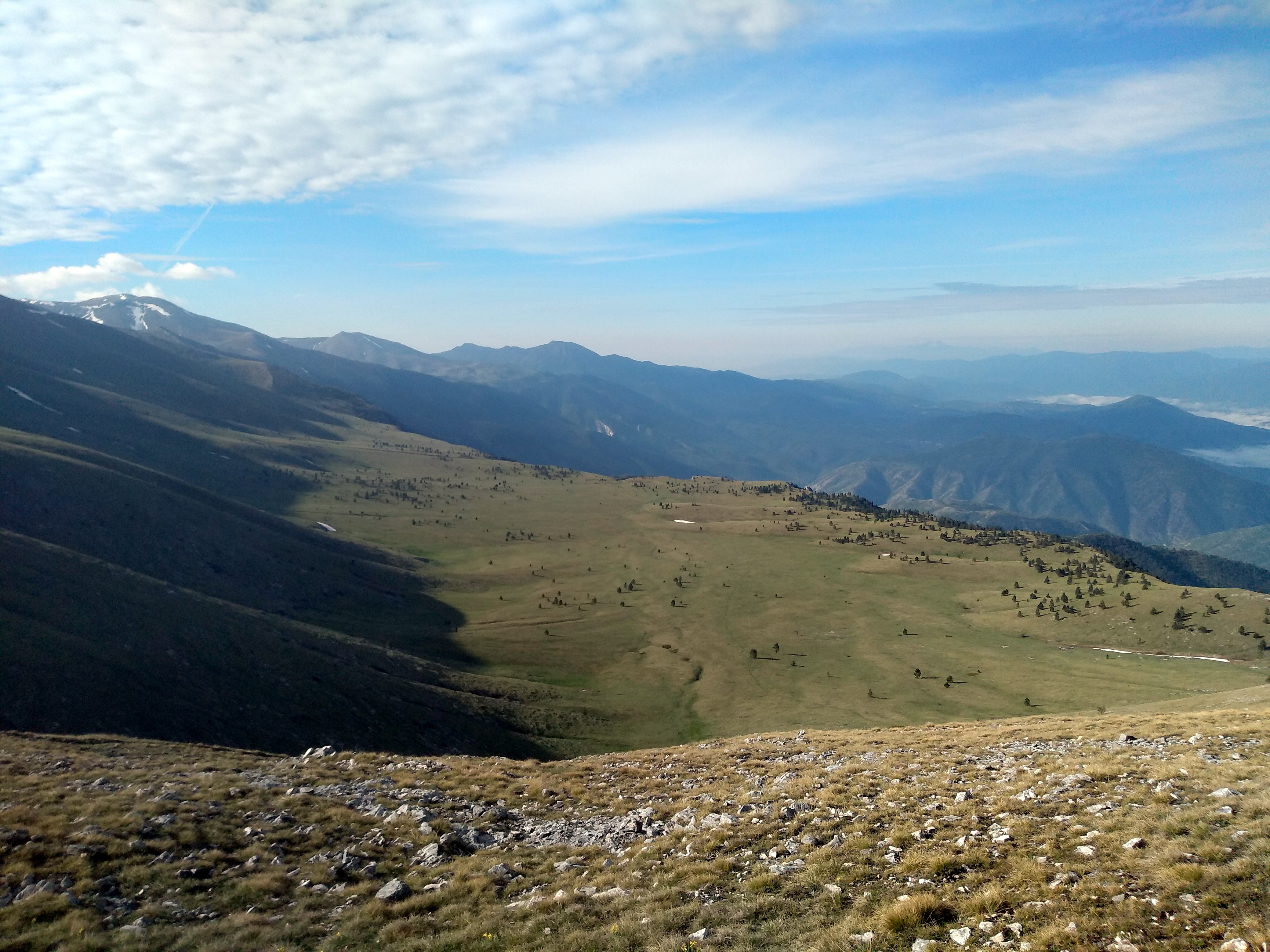 Boro pole (pine field) on Karadzica moutain, Macedonia